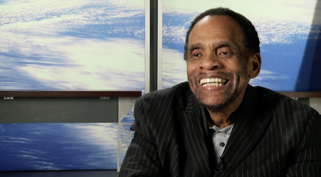 George Edward Alcorn Jr., a former NASA scientist.